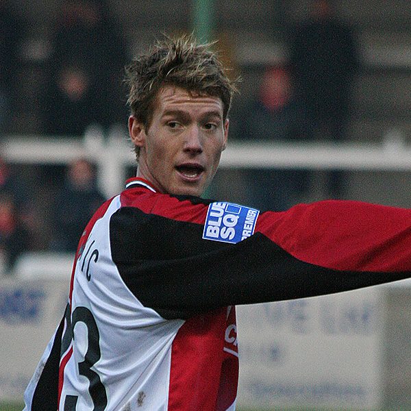 Oliver Bozanic playing for Woking on loan